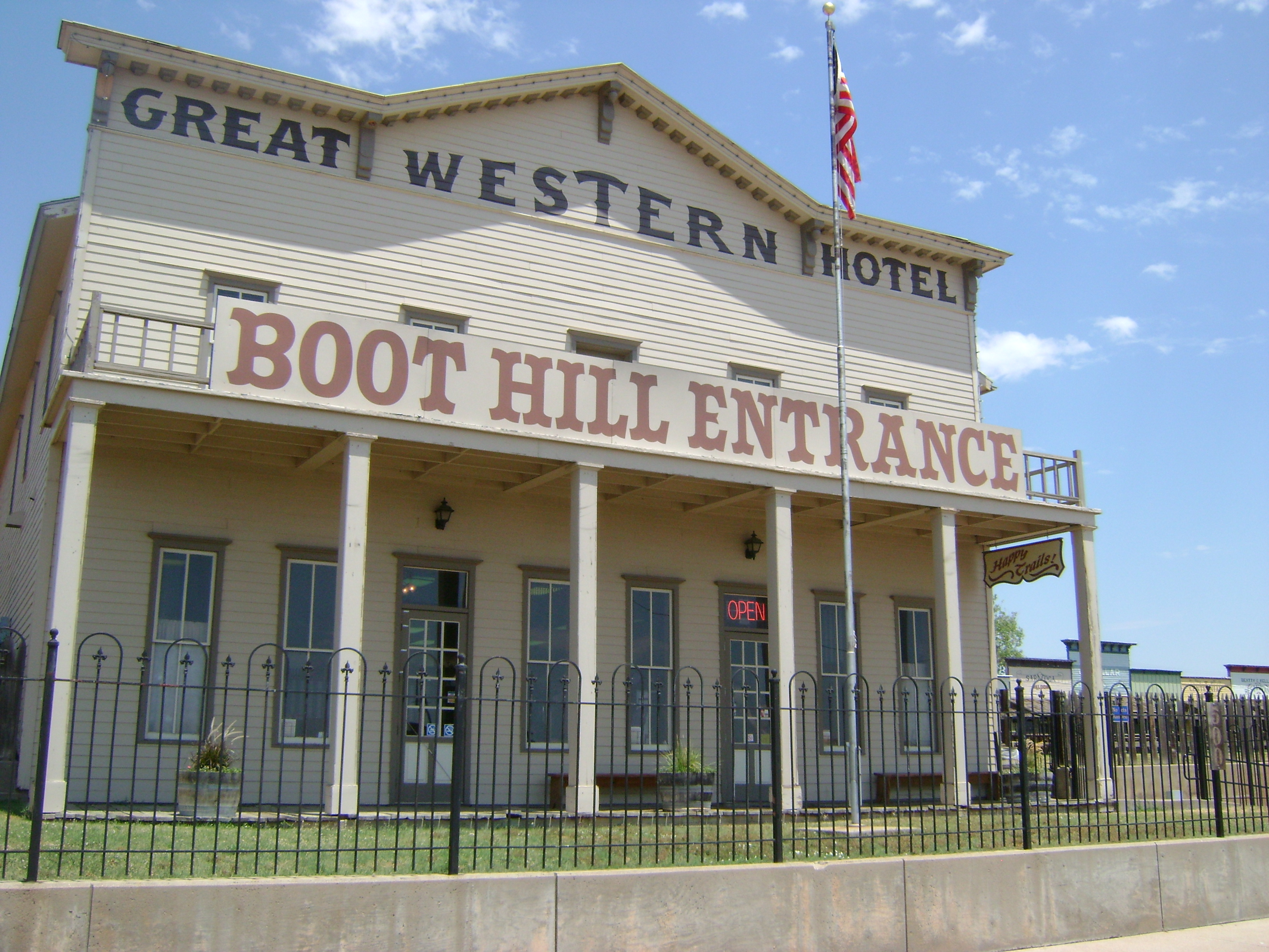 The front entrance to the Boot Hill Museum in Dodge City, KS.